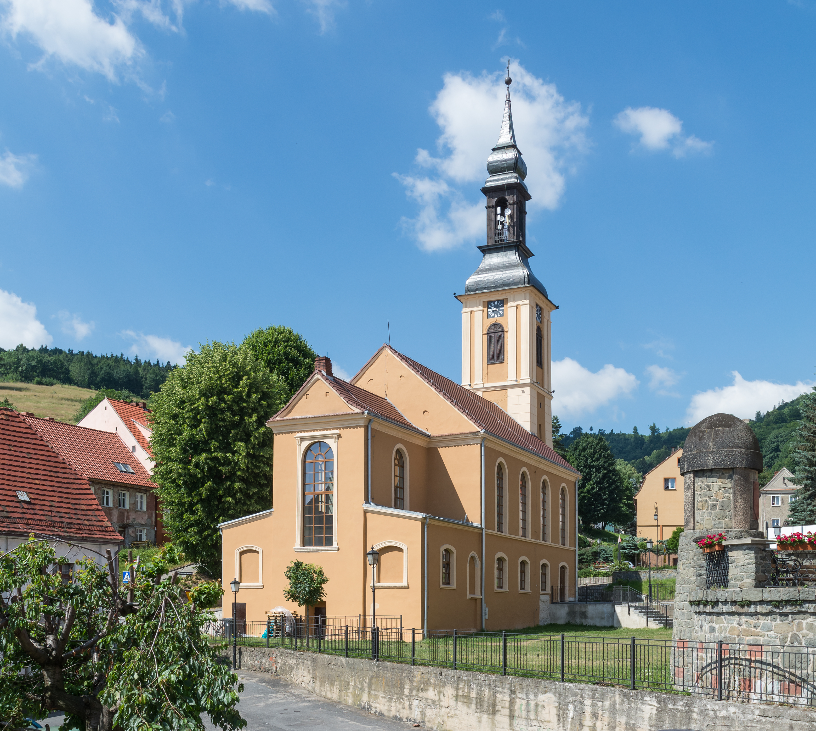 Former protestant church in Srebrna Góra